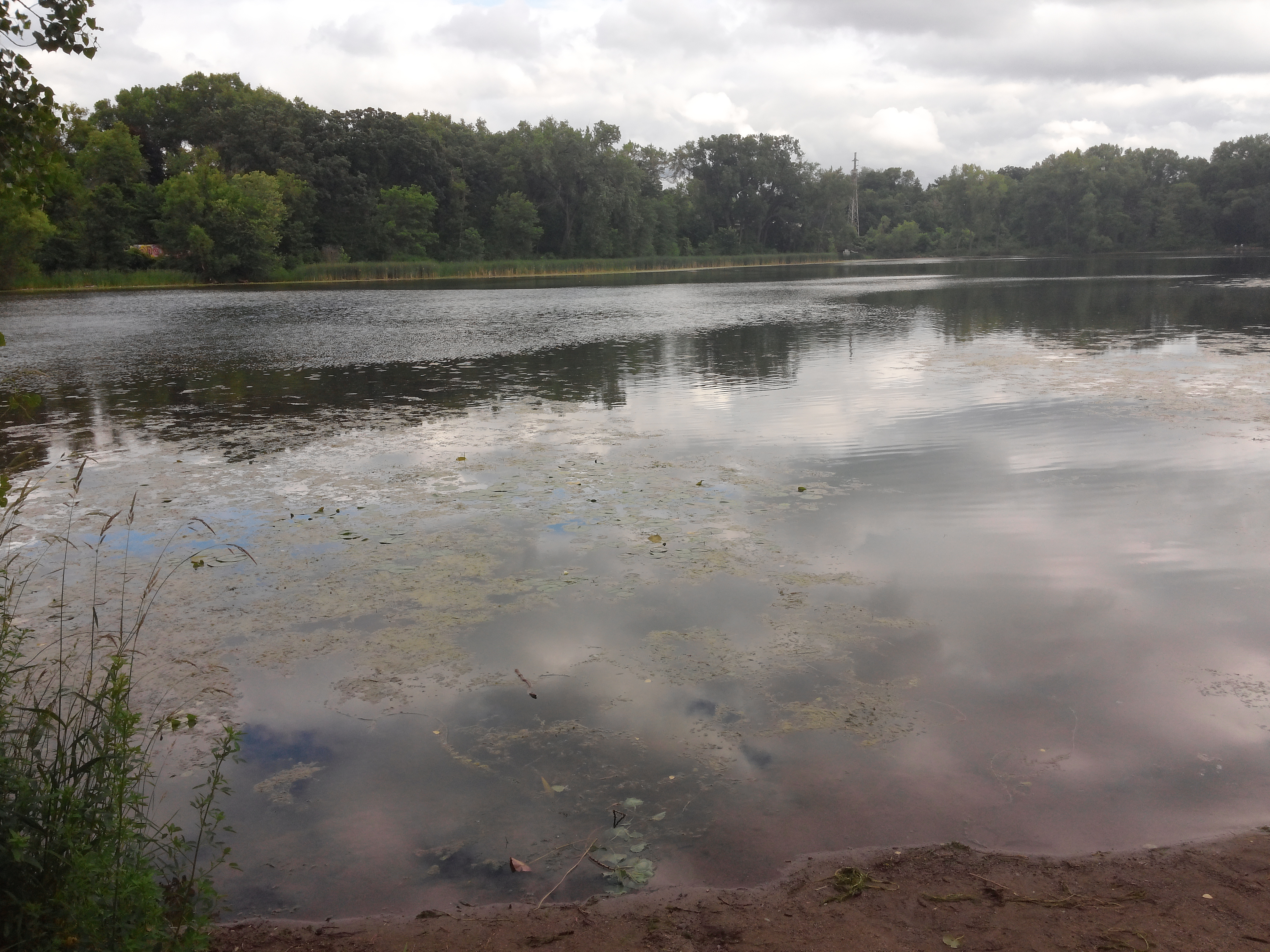 Brownie Lake in southwest Minneapolis, Minnesota